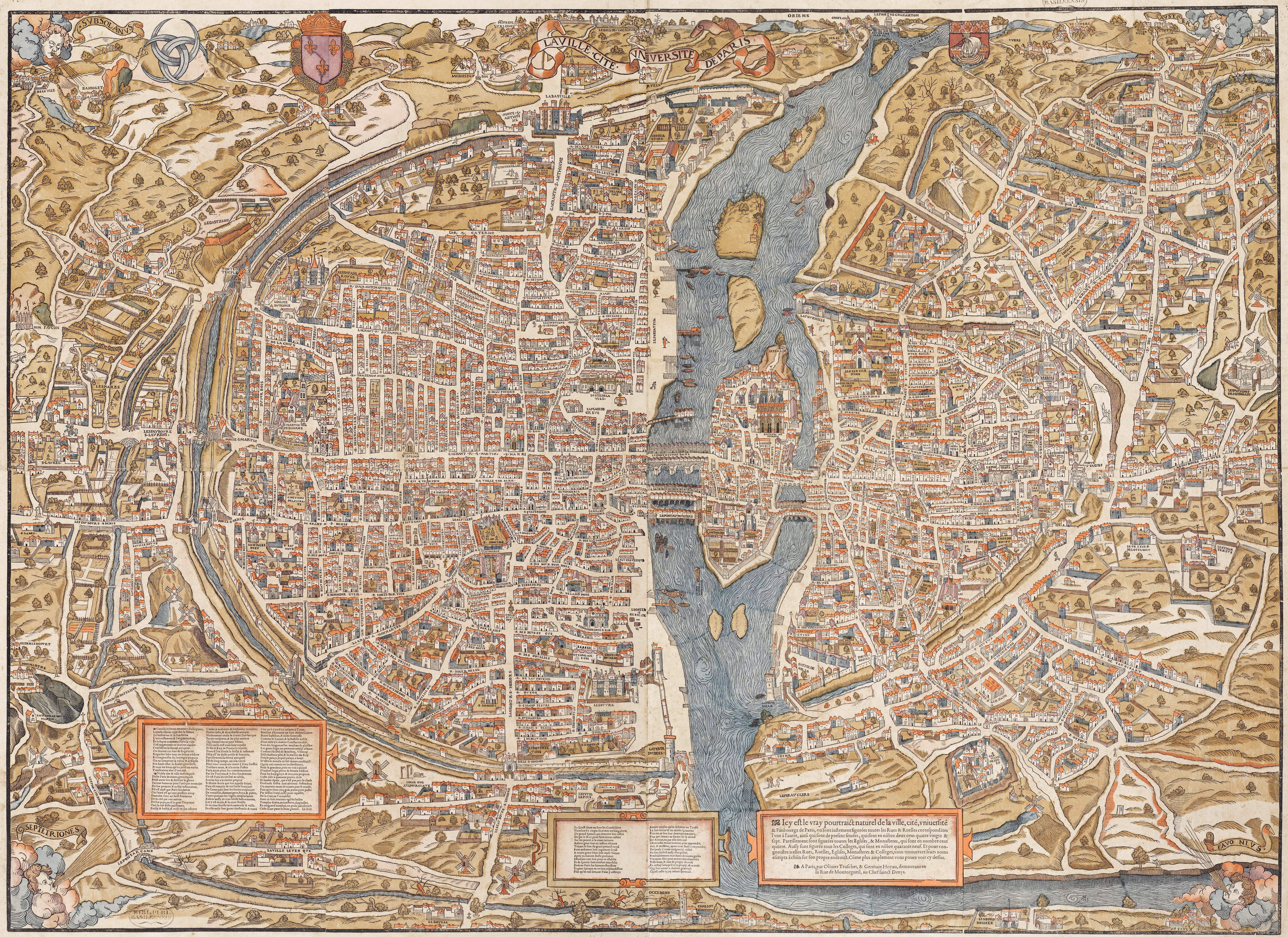 Plan of Paris by Truschet et Hoyau, scale ca. 1:4,500 (94 x 120 cm). Seefeld (Zurich) published this 1980 facsimile of the original map, also known as the plan de Bâle (Basel plan). Boutier gives a date of c. 1553 and estimates a scale of c. 1:7,000. The original is in color and was engraved on wood, 8 plates, 96 x 133 cm assembled.